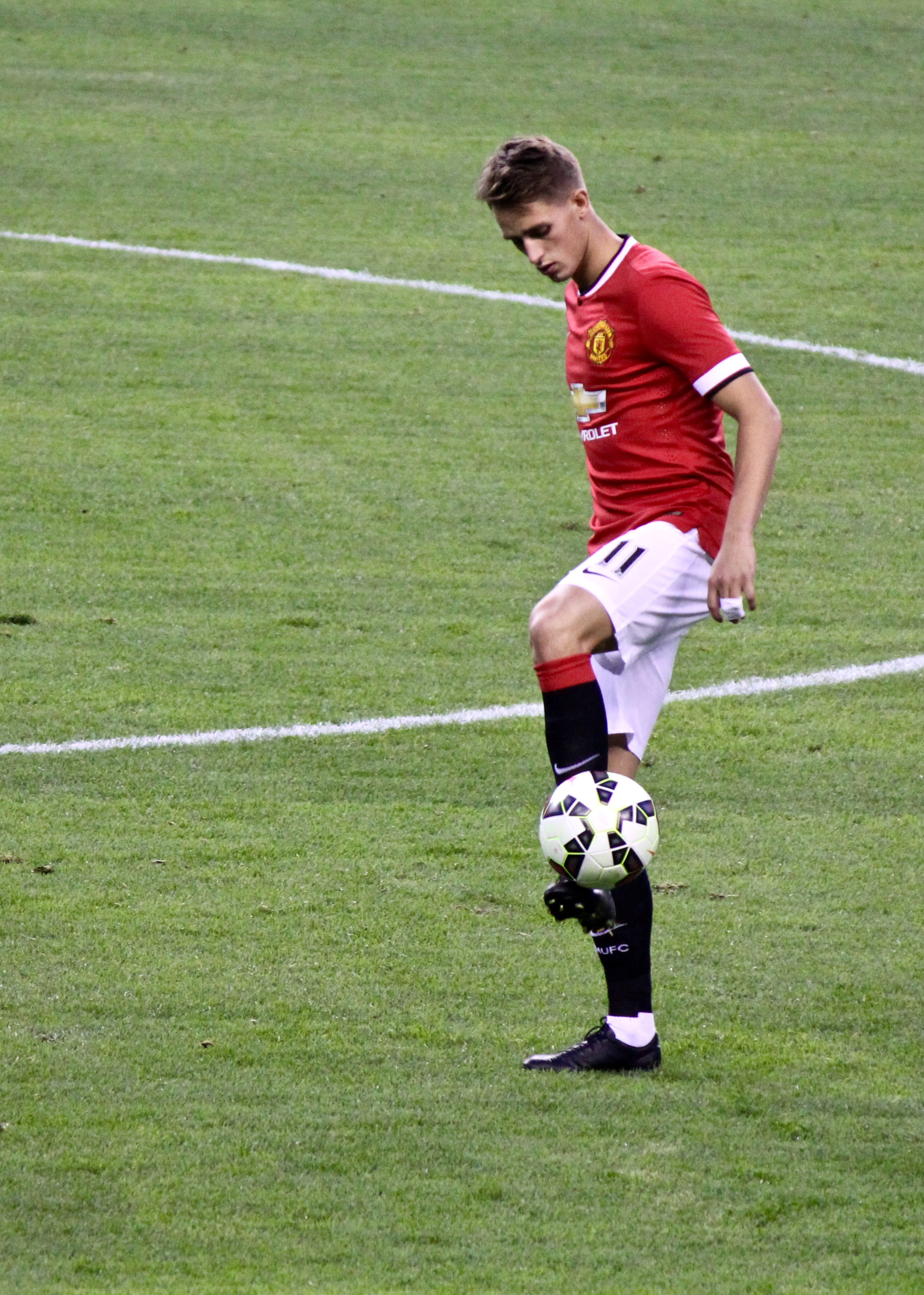 Adnan Januzaj playing for Manchester United in pre-season friendly against Club America